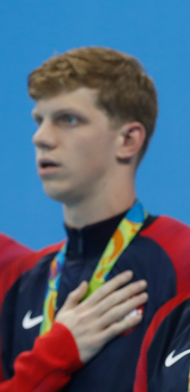 Rio de Janeiro - Equipe norte-americana com Michael Phelps ganha ouro no revezamento 4 por 200m, nos Jogos Rio 2016. (Fernando Frazão/Agência Brasil)